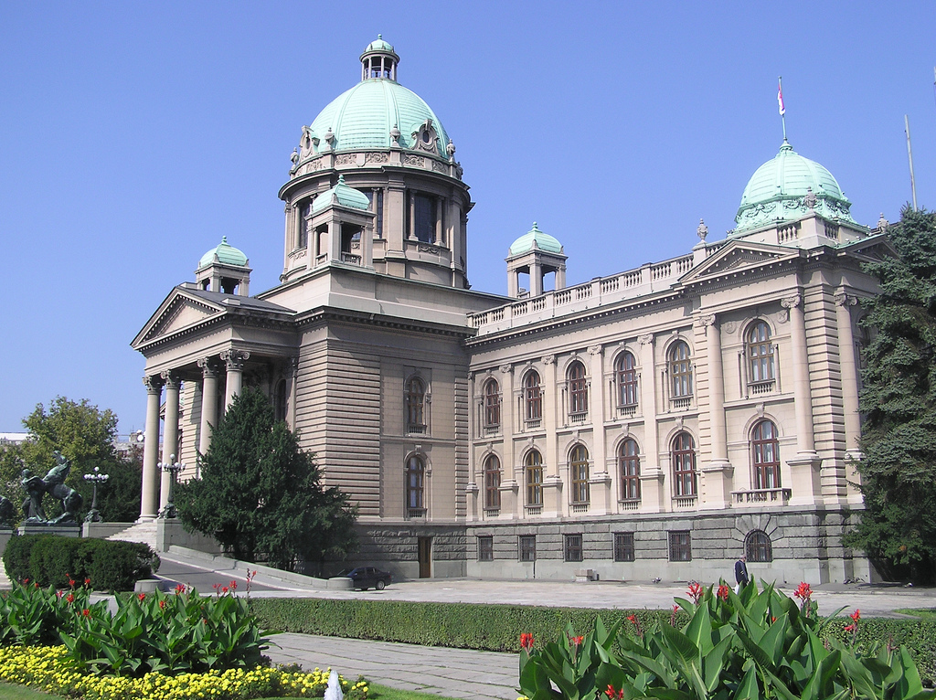 Building of the National Assembly of Serbia in Belgrade.